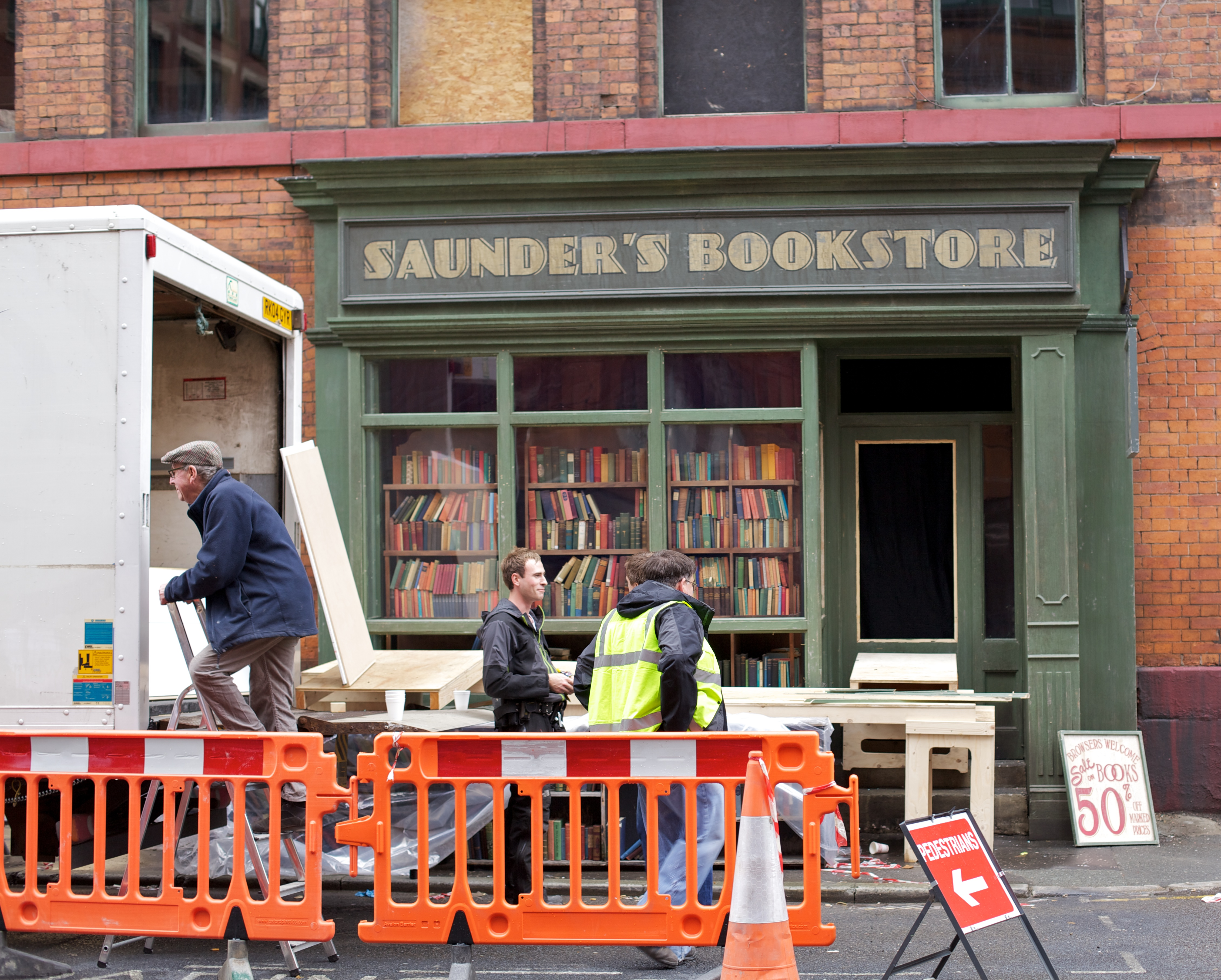 Captain America' New York set construction on Dale Street, Manchester. A few days later the set was full of 1940s cars, actors, gunfire and explosions. You can see lots of far more exciting photographs at the Captain America Filming in Manchester / Frostbite blog.